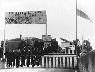 A neutral warning on the border of San Marino during WWII. The sign reads (in Italian, German and French): Republic of San Marino - Neutral state.